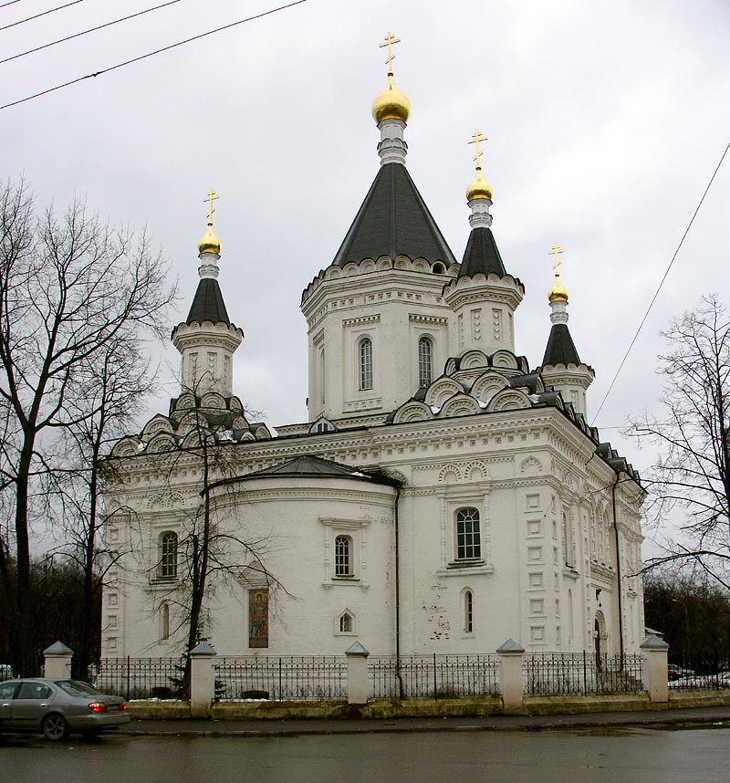 Church of Archangel Michael, Devichye Pole, Moscow, Russia